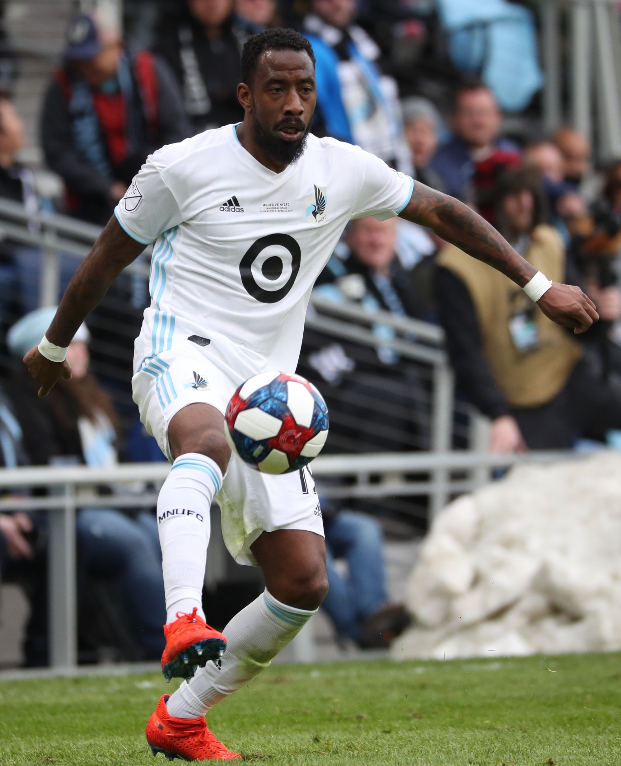 Romain Metanire Minnesota United - MNUFC v NYCFC NEW YORK CITY FOOTBALL CLUB - ALLIANZ FIELD - St. PAUL MINNESOTA